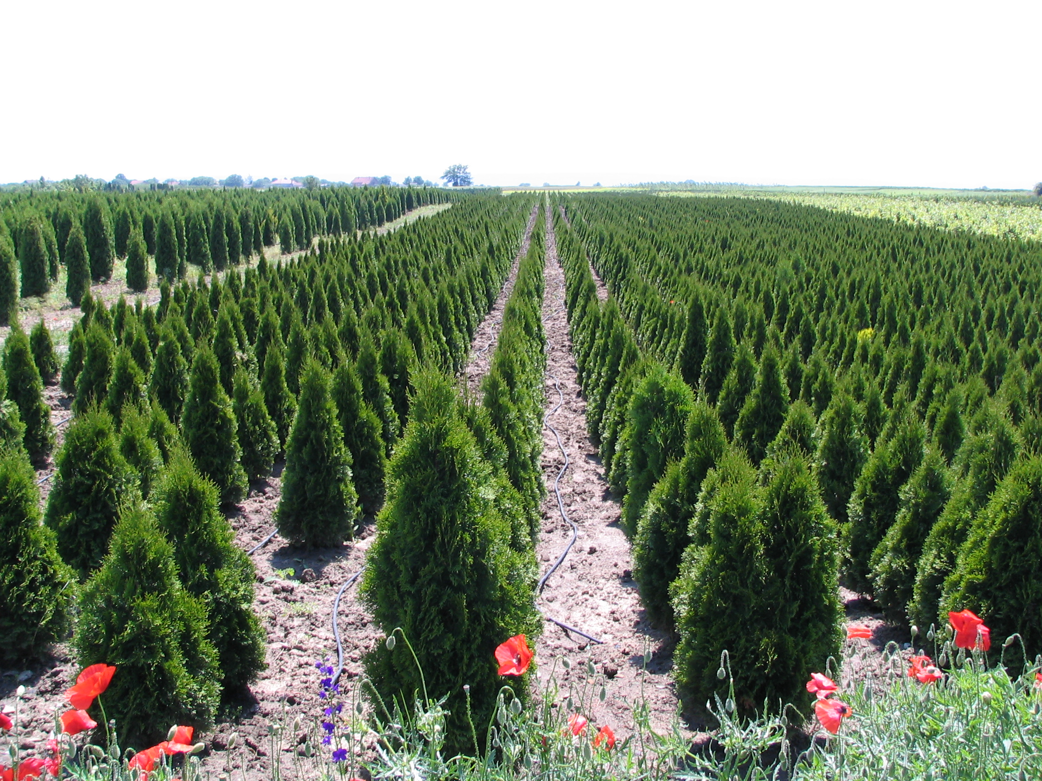 Tree Nurtsery Zak, Plocica Serbia (photo: Mihailo Grbić, 2010).